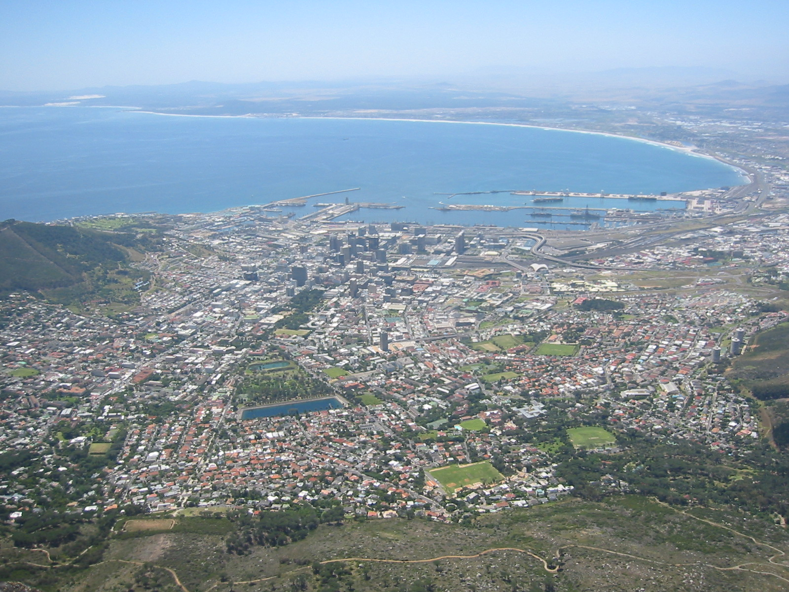 Microcosmos: This is the way Capetown looks from Table Mountain.